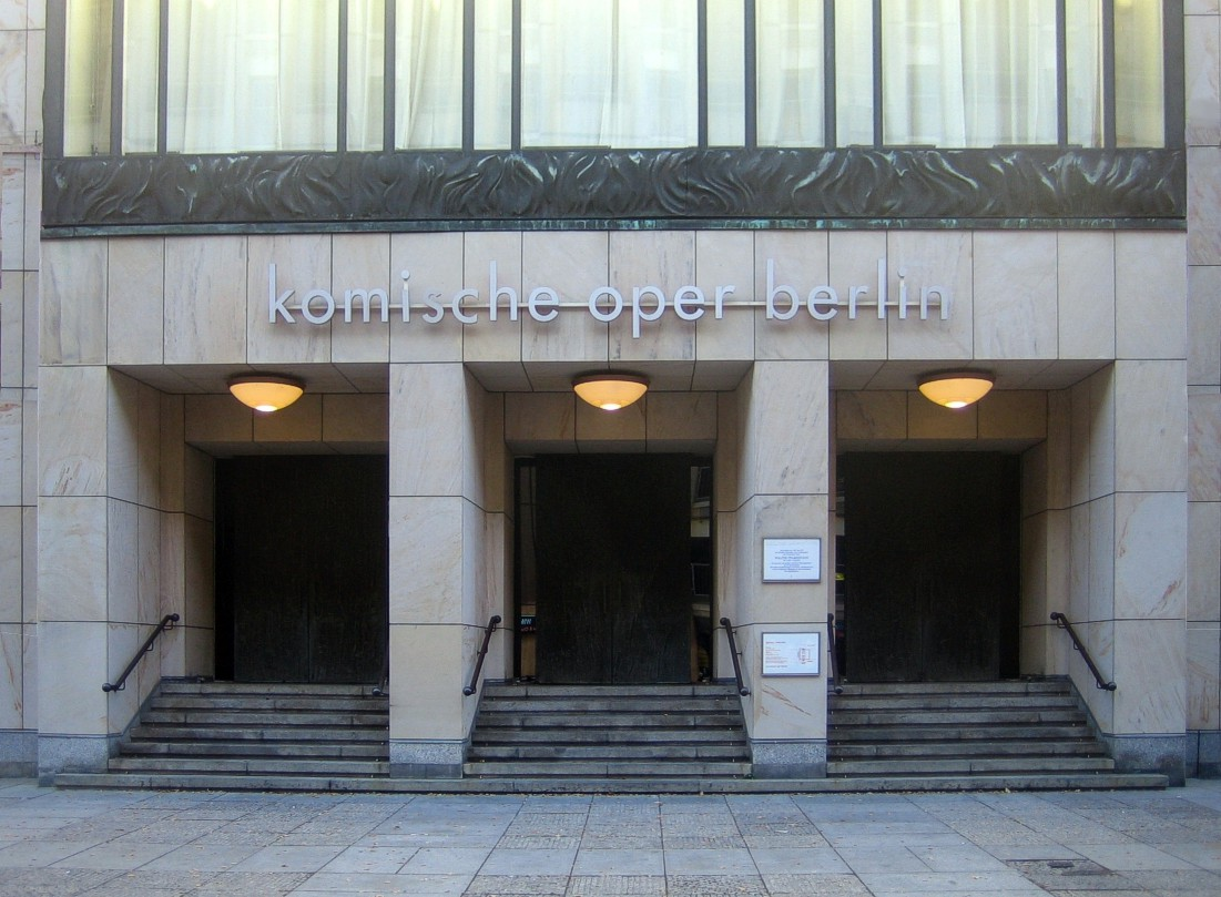 Main entrance of the "Komische Oper", an opera house in Berlin.